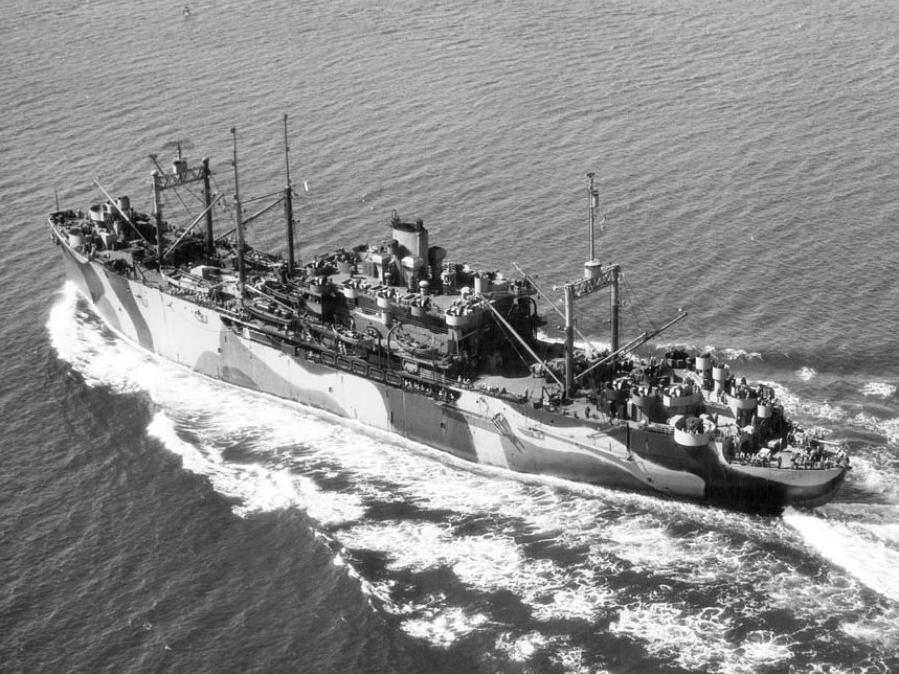 The U.S. Navy submarine tender USS Aegir (AS-23) underway in U.S. coastal waters, circa in late 1944. She is painted in Camouflage Measure 31, Design 12F.